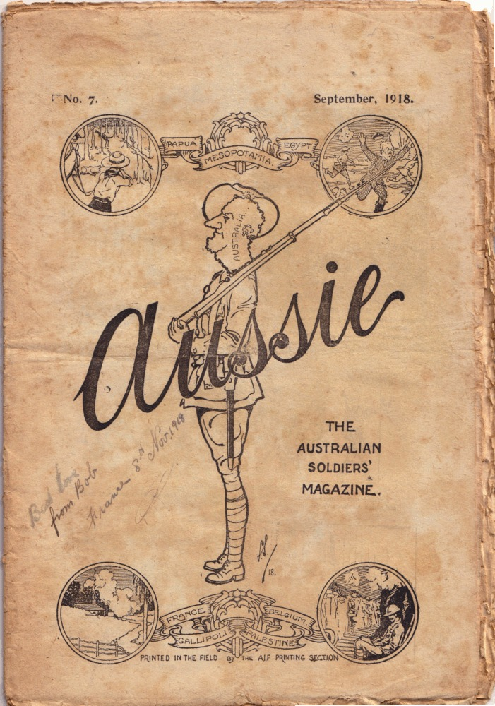 The Front Cover of the 7th Issue of Aussie: The Australian Soldiers' Magazine